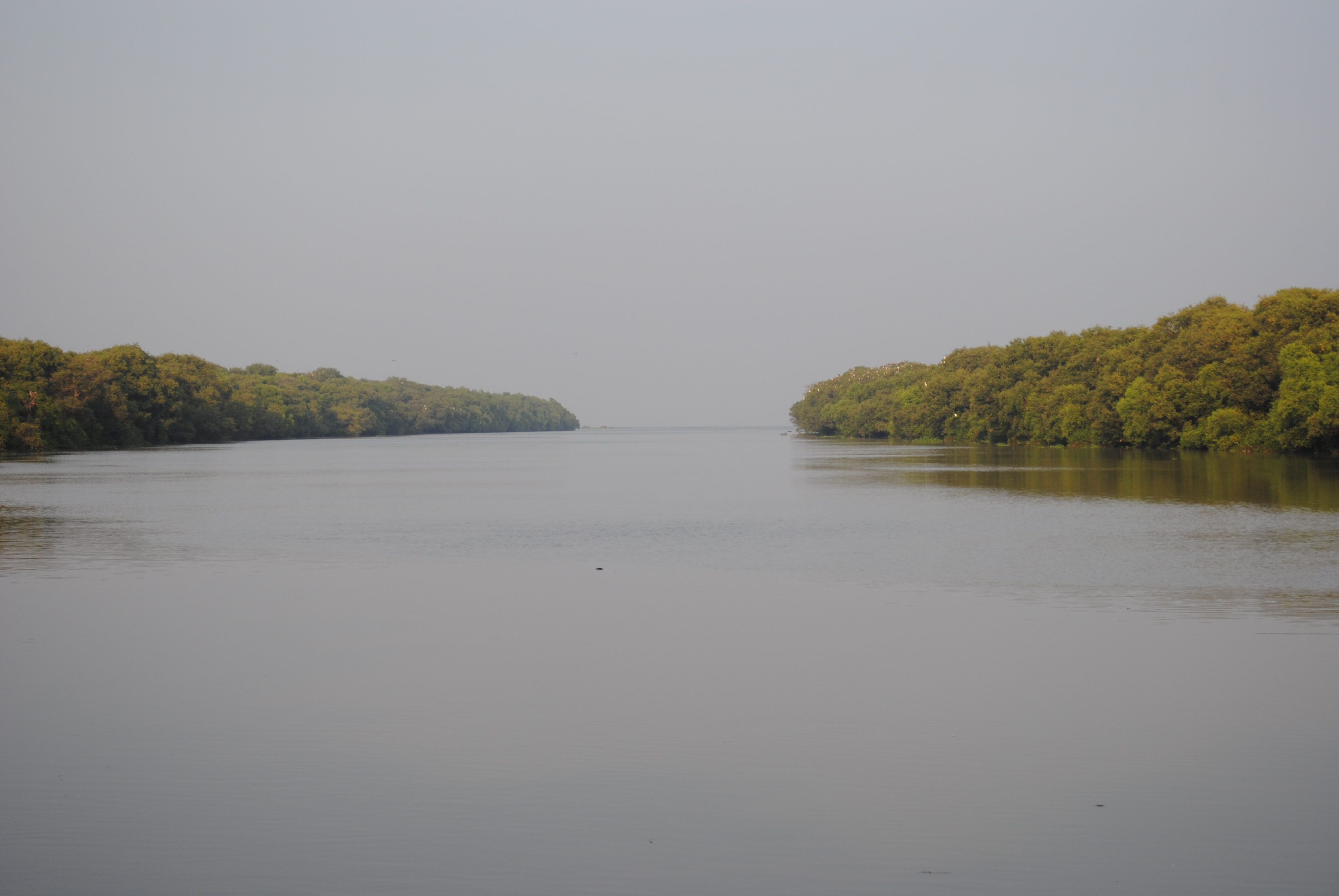 The Godavri estuary in Koringa Wildlife Sanctuary, Andhra Pradesh, India